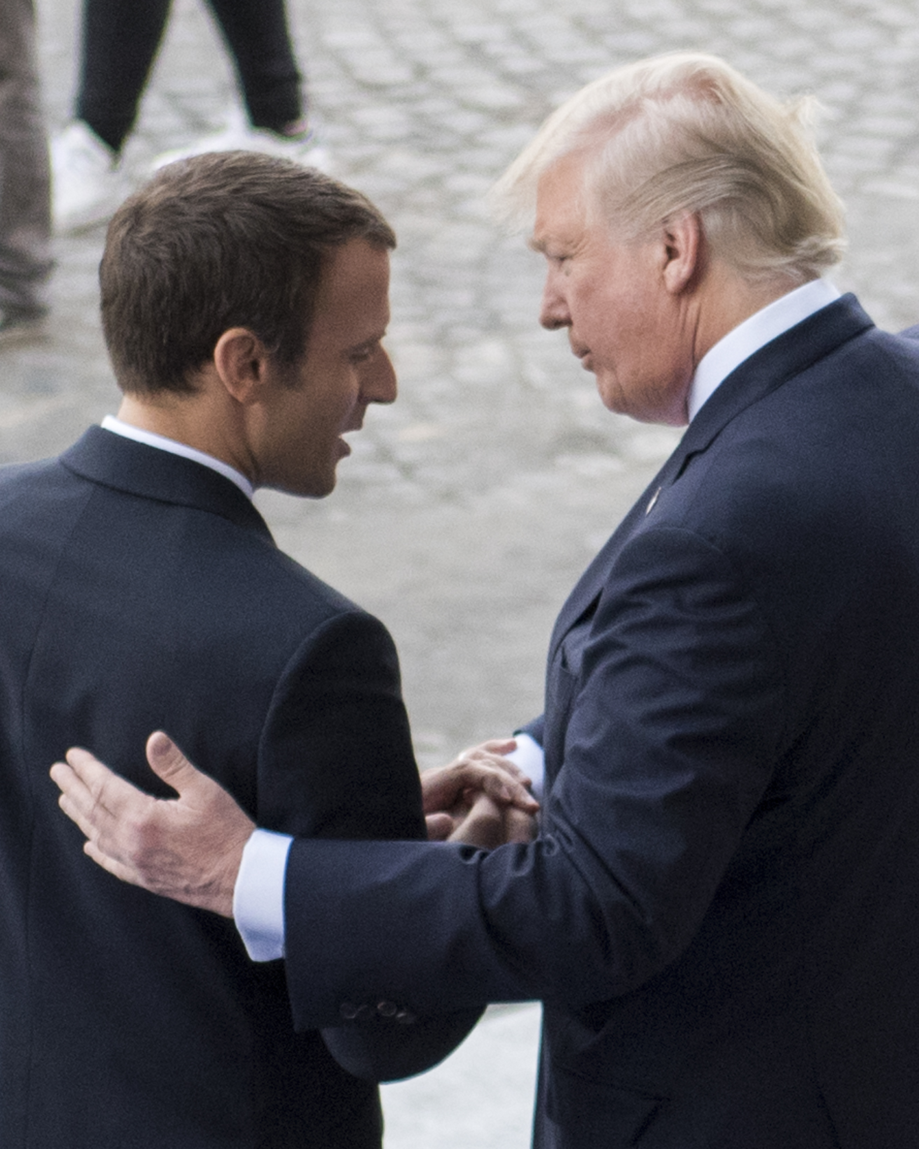 French President Emmanuel Macron welcomes President Donald J. Trump to the reviewing stand for the Bastille Day military parade in Paris